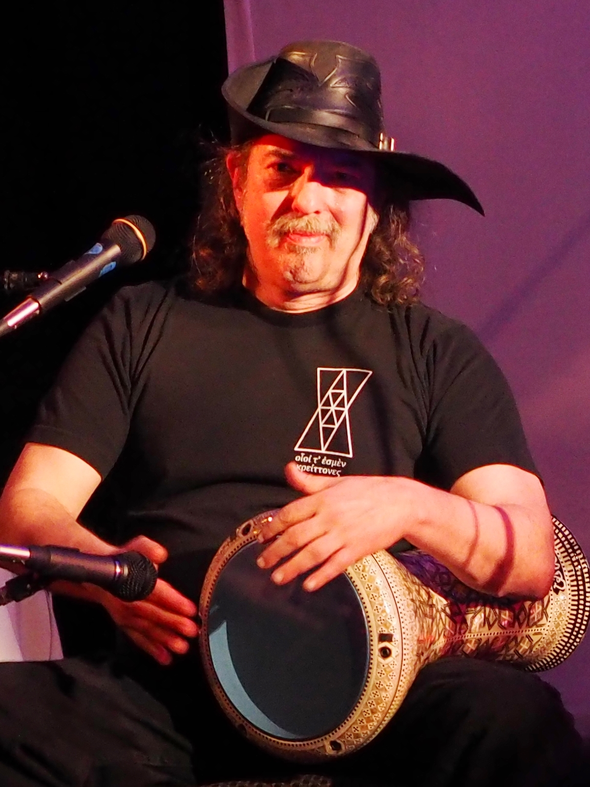 Steven Brust playing a drum at reunion of Cats Laughing, Minicon 50, Bloomington, Minnesota.